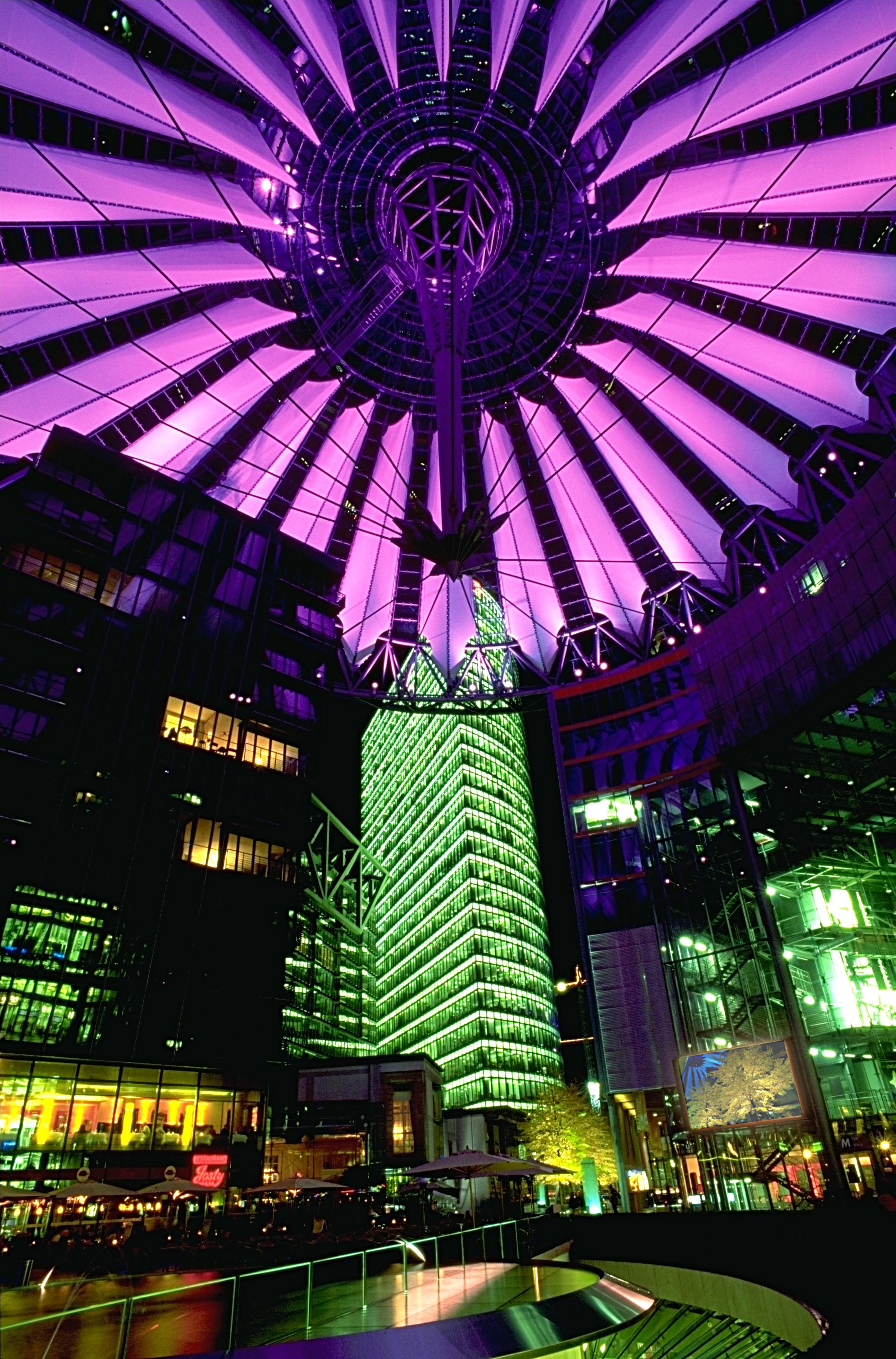 Sony Center at Night, Berlin.